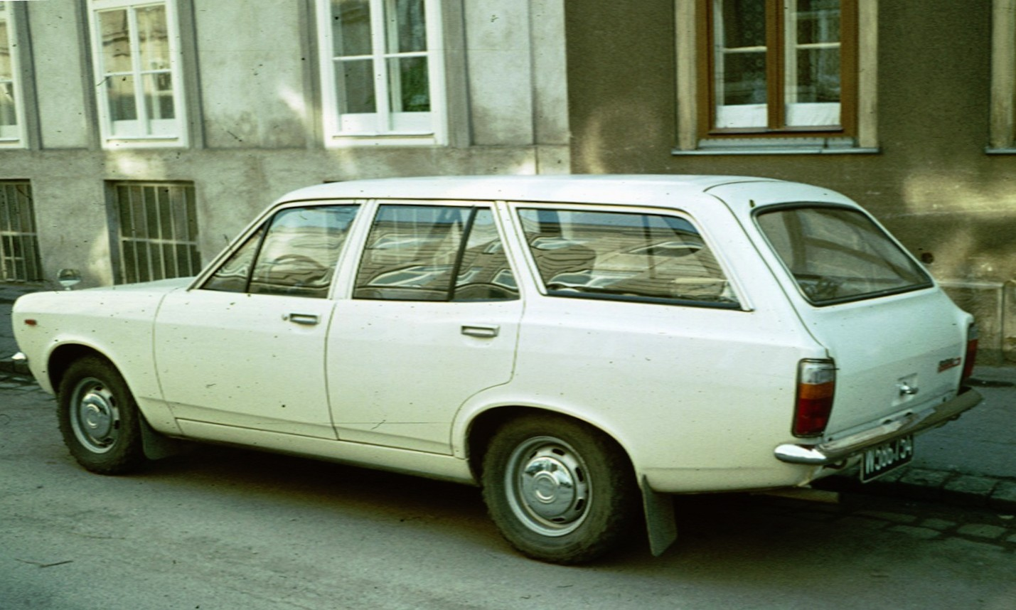 early Avenger Estate in Vienna (so presumably badged as a Sunbeam)